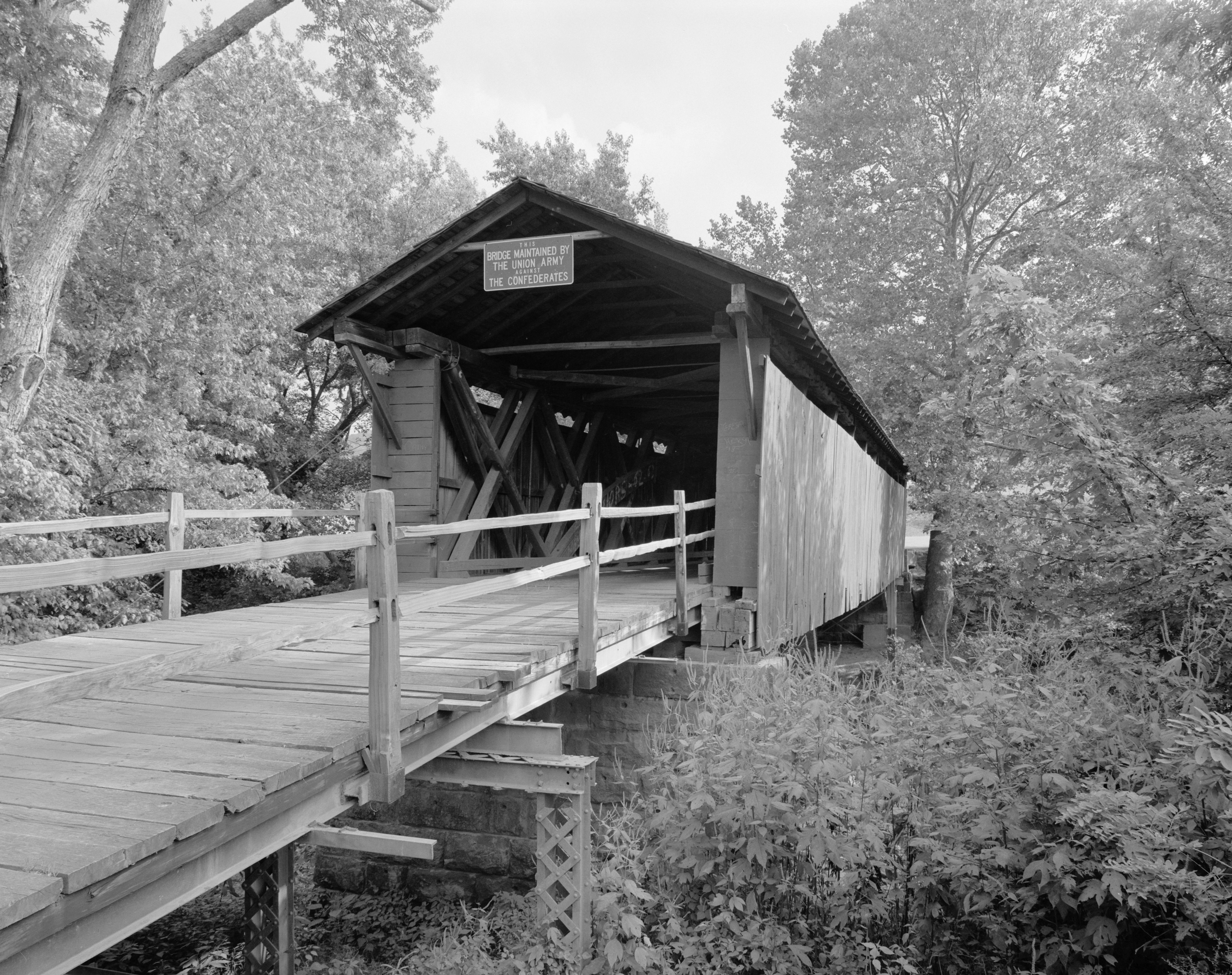 Northern side of the Mud River Covered Bridge, spanning the Mud River near Milton in Cabell County, West Virginia, United States. Built in 1875, the bridge was added to the National Register of Historic Places on 10 June 1975.